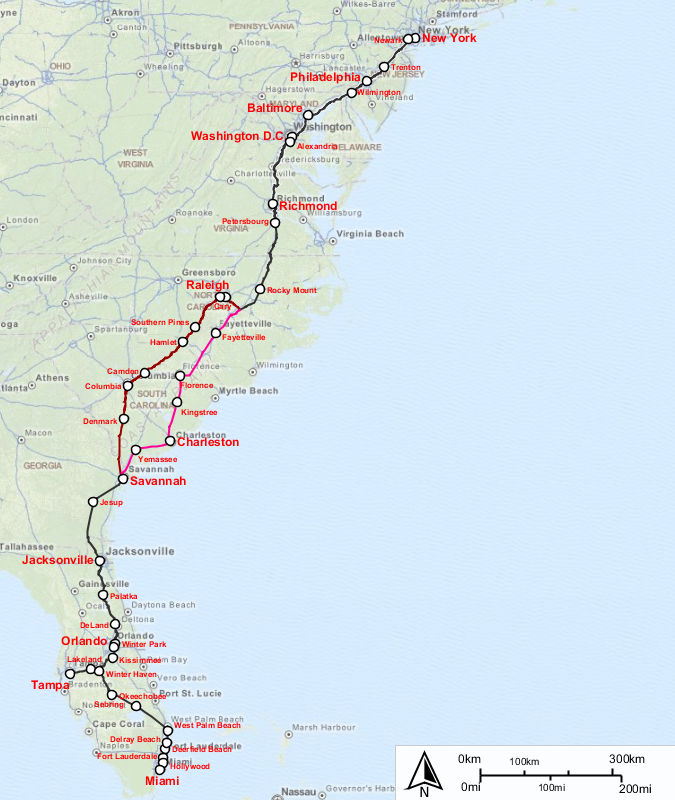 Amtrak Silver Service Legend: ━━━ Common route of Silver Star, Silver Meteor and Palmetto (this applies to north ━━━ Common route of Silver Meteor and Palmetto ━━━ Route of Silver Star ━━━ Common route of Silver Star, Silver Meteor (Palmetto finish route at Savannah)